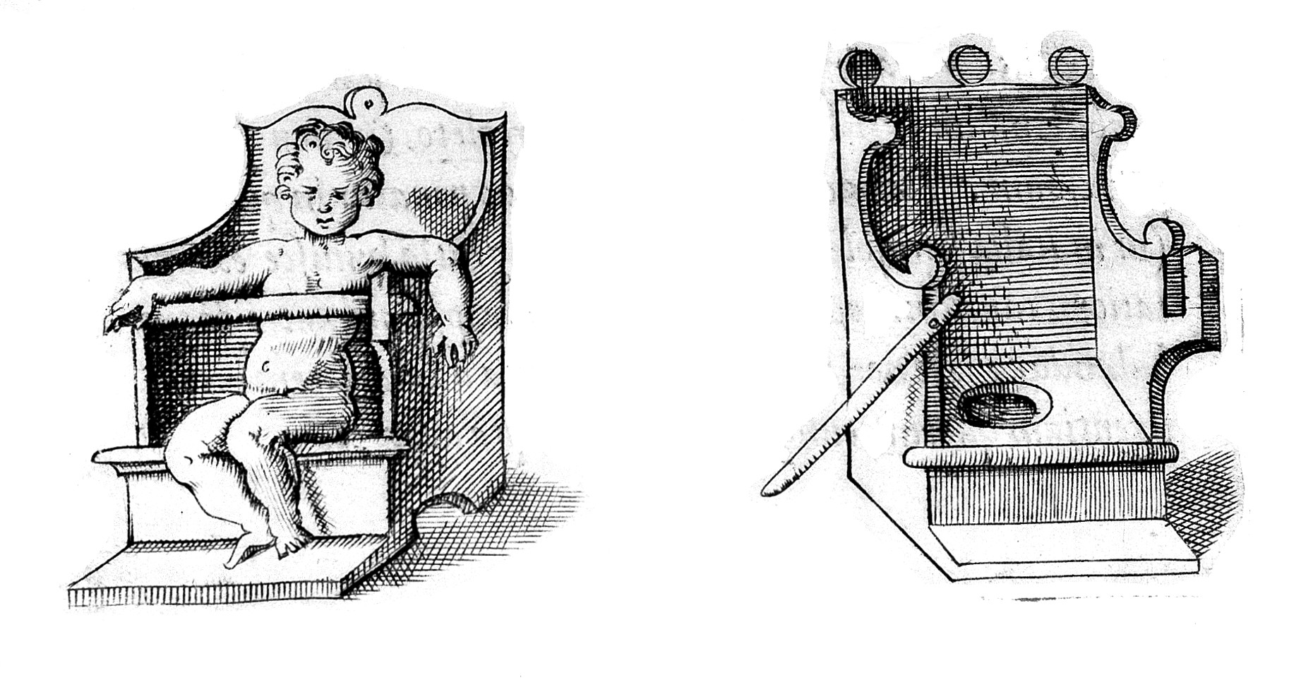 Child seated on lavatory Rare Books Keywords: child care, 16th century; nursery nursing, 16th century; Toilet Facilities; Omnibonus Ferrarius